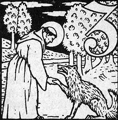 Saint Francis instructs the Wolf, engraving